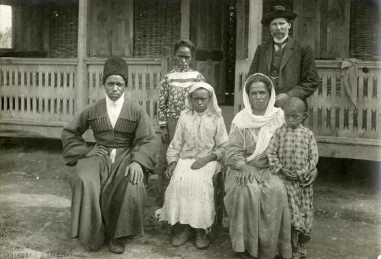 Photo of Afro-Abkhazian family from "Caucasus. Volume I. The peoples of the Caucasus", St. Petersburg., Kovalevsky P. I., 1914